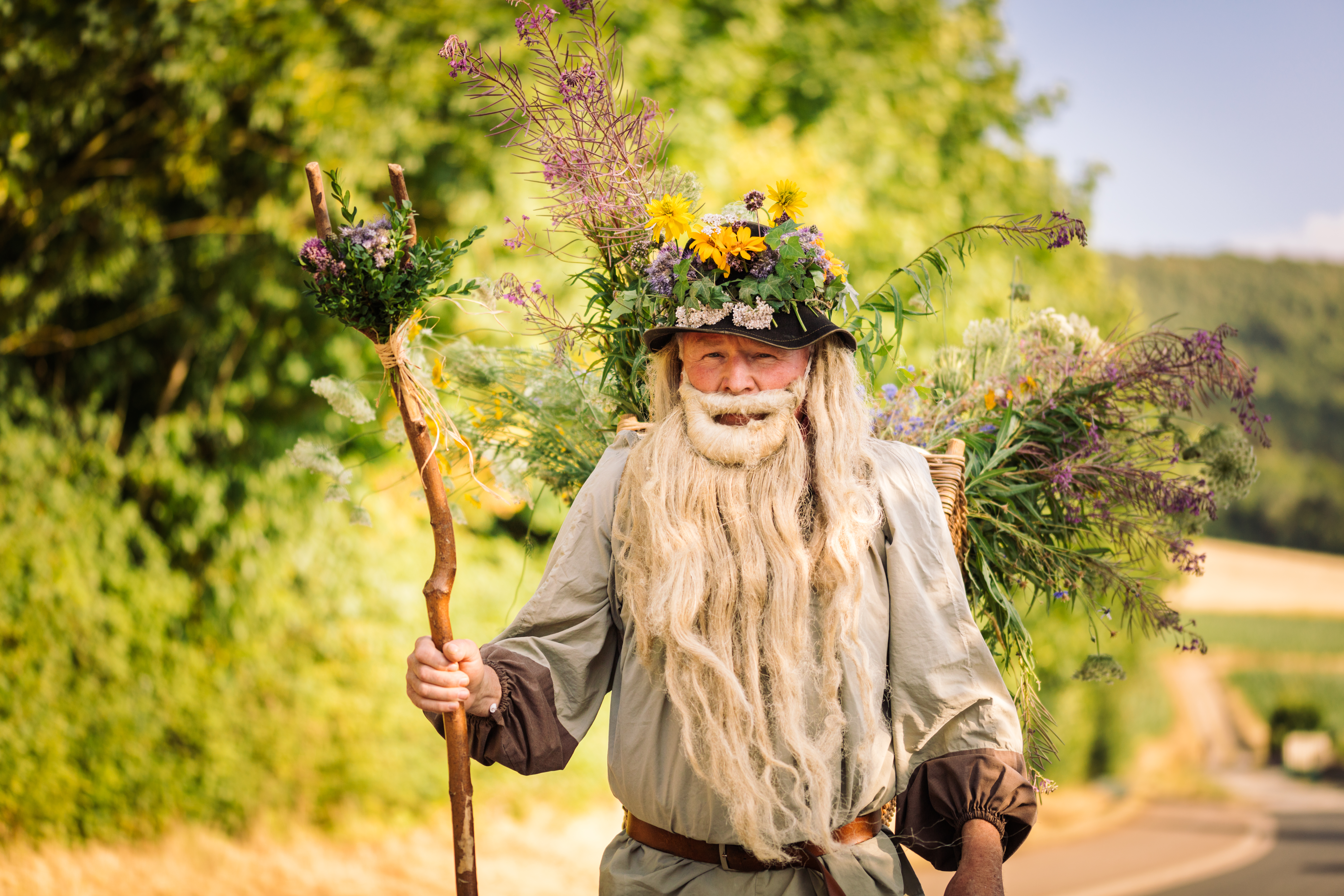 Portrait des Wanfrieder Brombeermannes verkörpert von Uwe Roth.